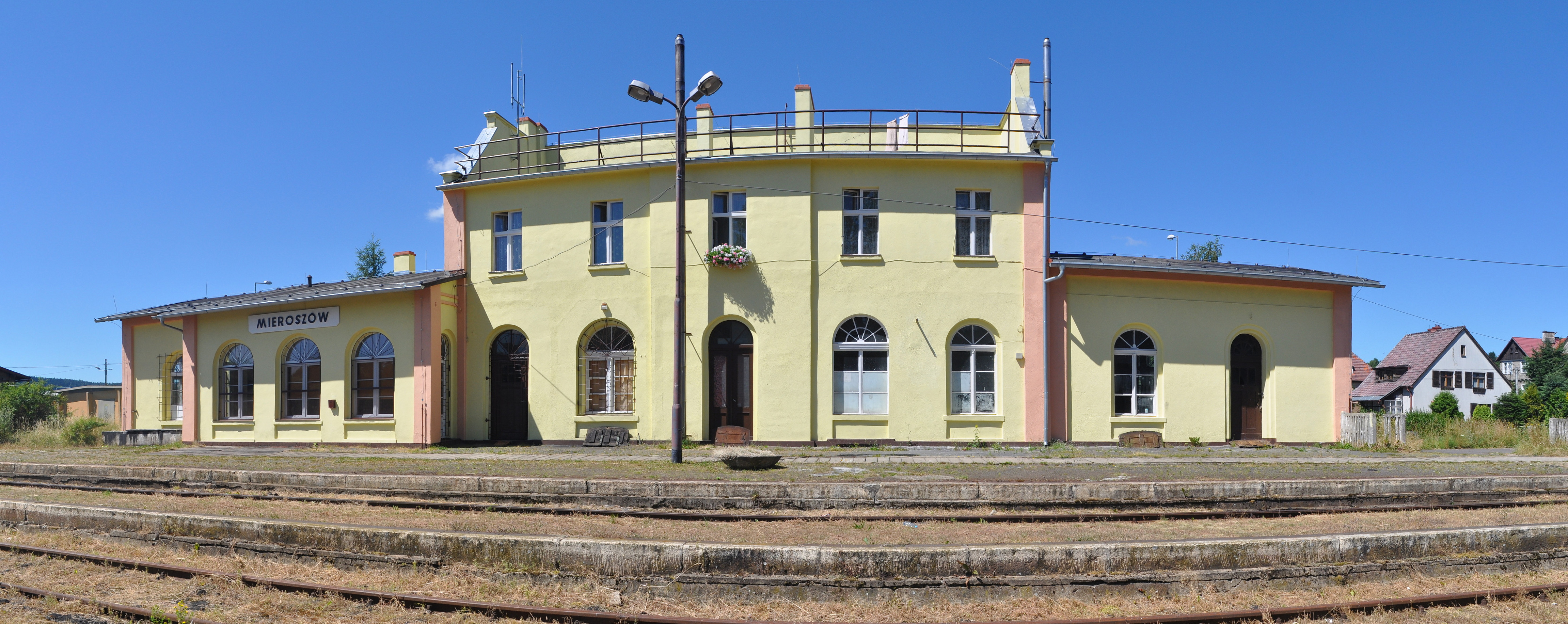 Train station in Mieroszów